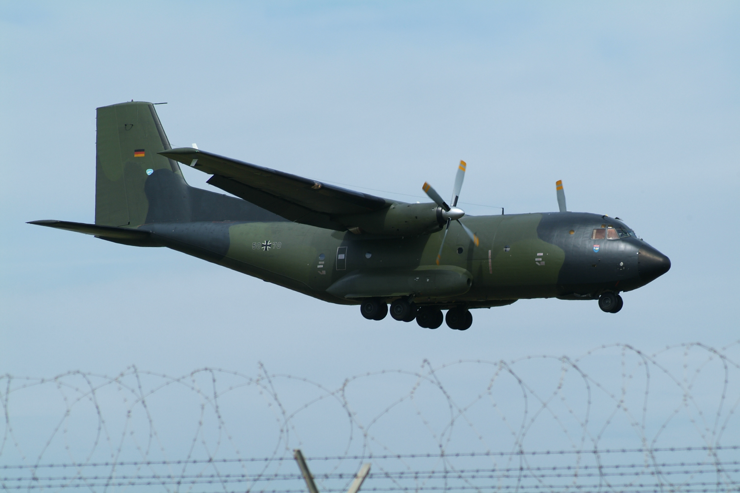 I was pleased with this aircraft as I had never seen this one before. Still haven't seen two others of the German fleet though.